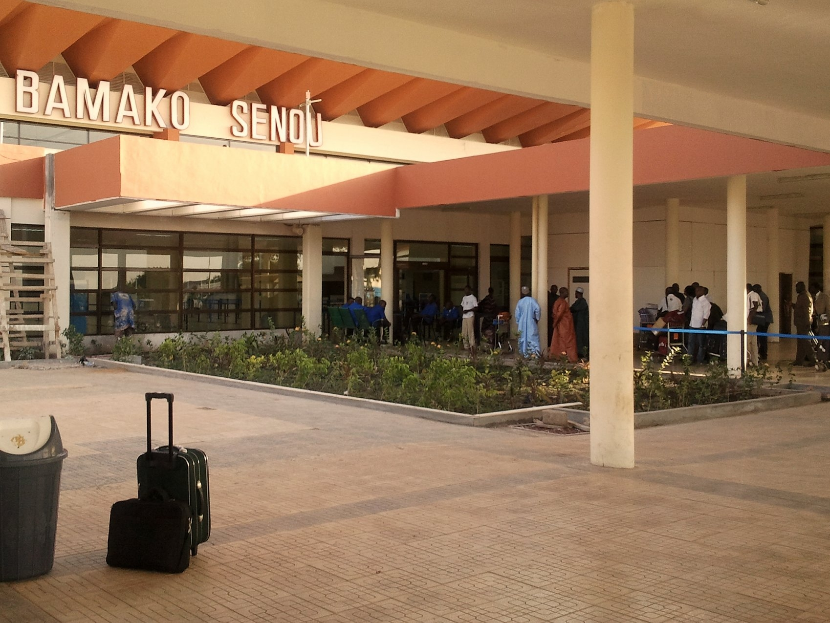 Entrance to terminal building at Bamako-Sénou International Airport. Early afternoon and the airport is not yet open, so passengers for the ASKY flight to Ouagadougou are lining up outside.